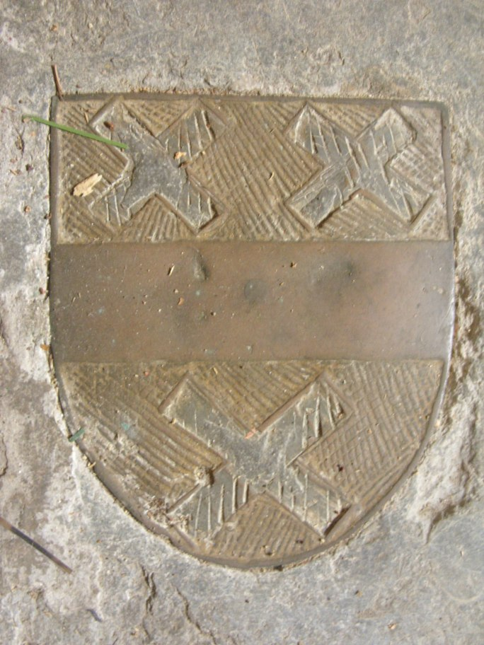 Brass showing the arms of the Boyville family; it is set into the floor of Burton Latimer church.